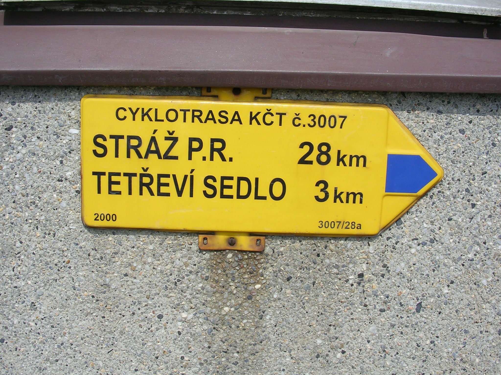 Ještěd. Cycling route sign.